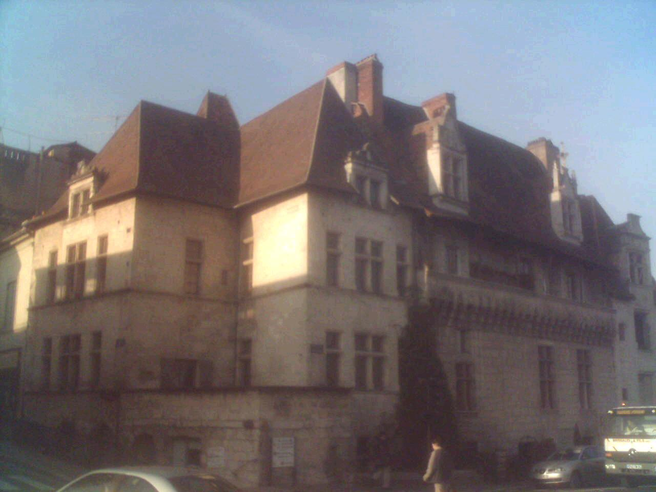 Summary